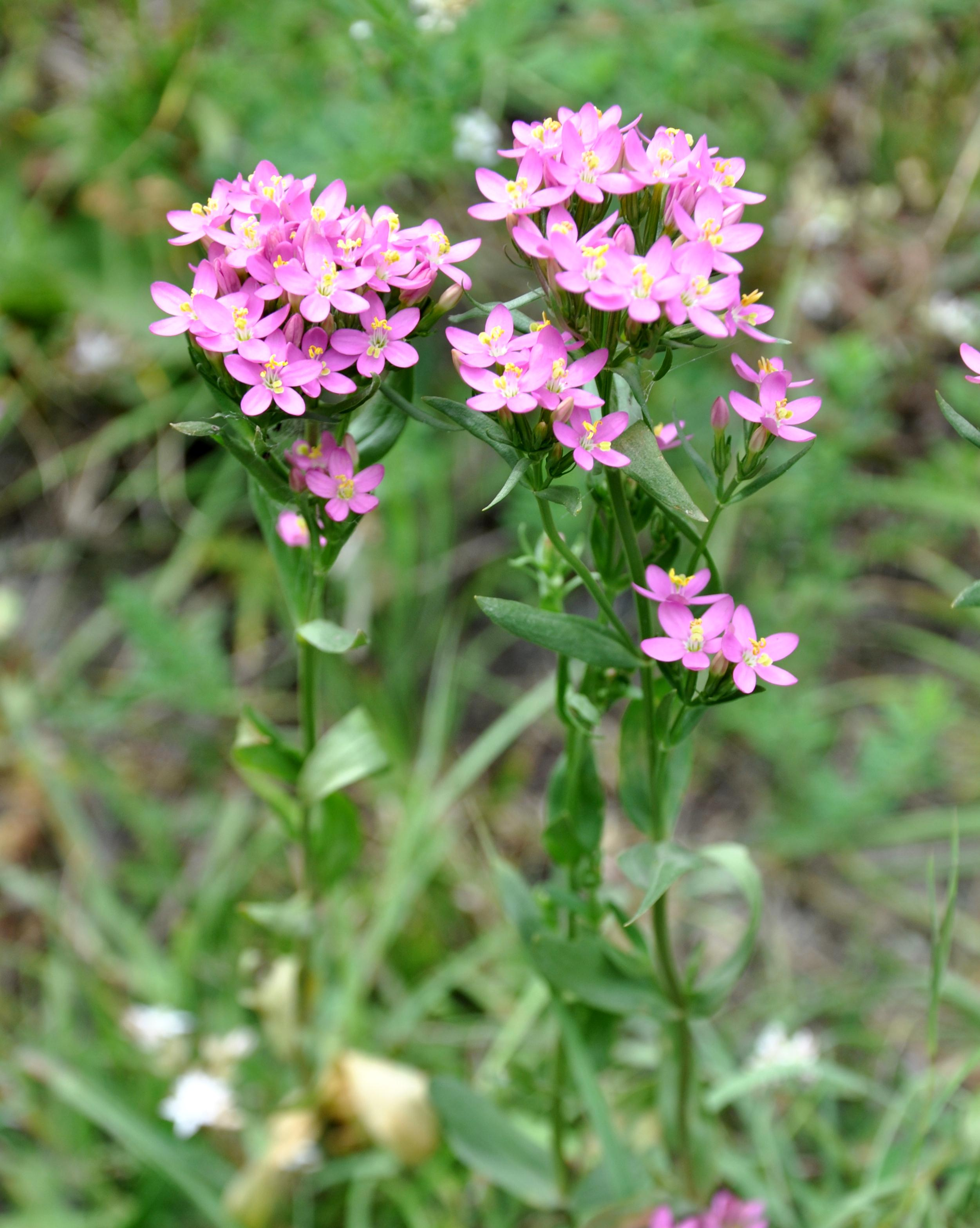 Taken in Sachkhere, Chartis khevi